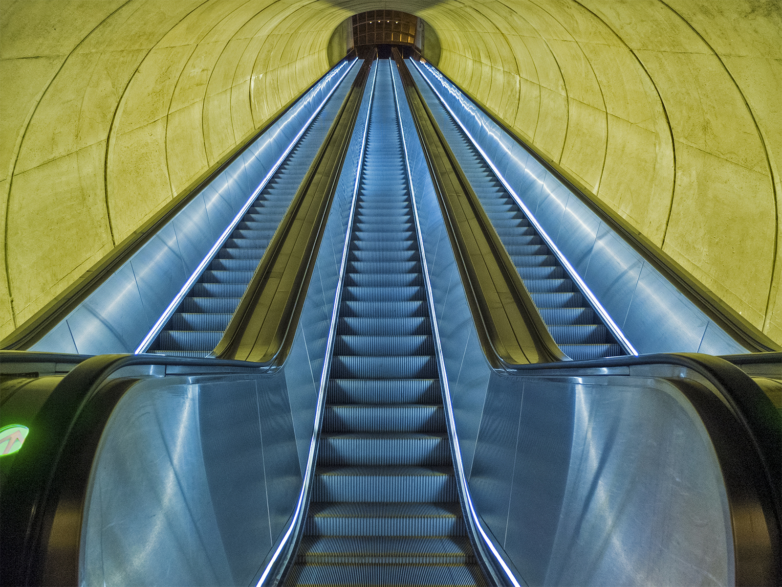 Dupont Circle Metro Station, South Exit Escalators